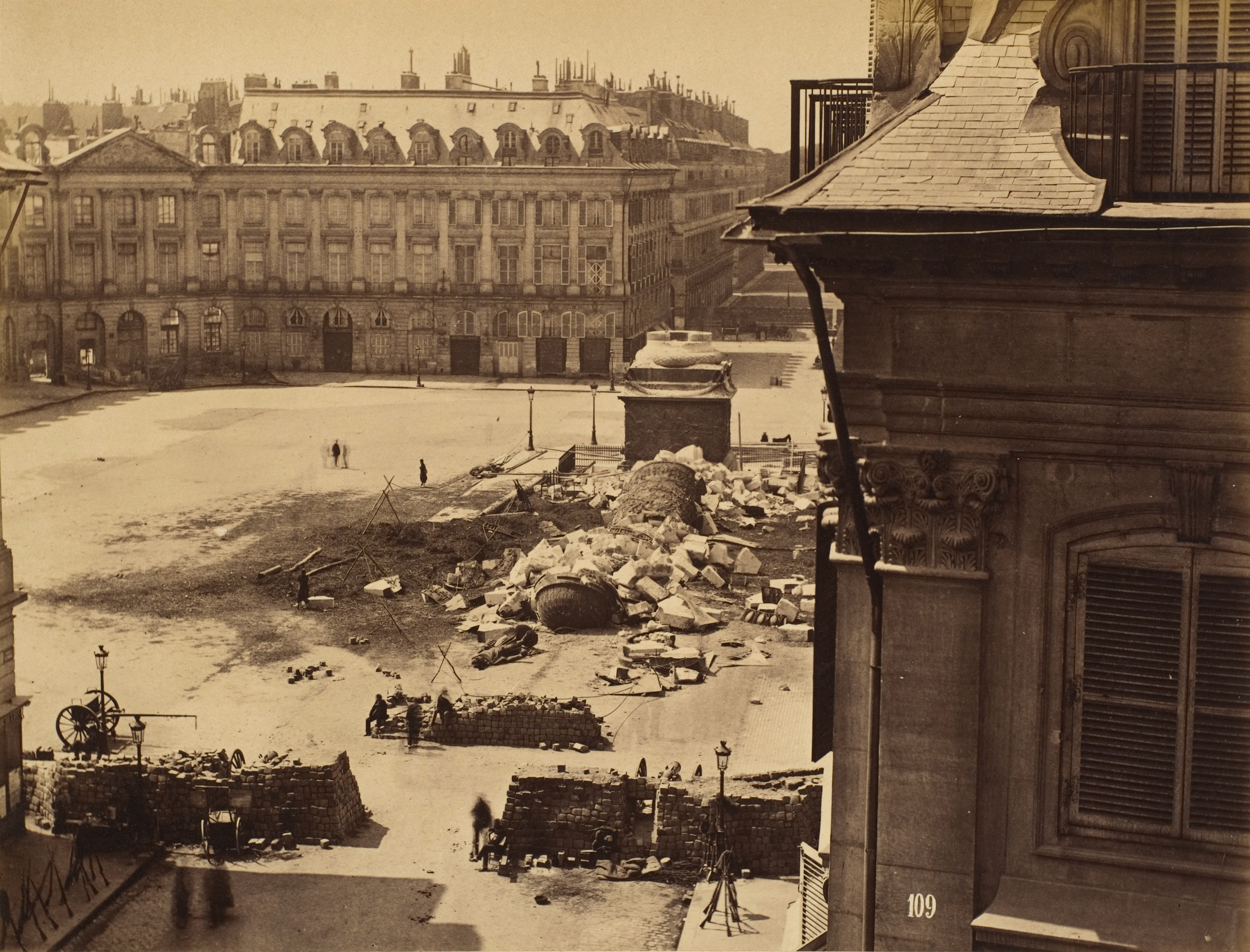 On May 16, 1871, a group of Communards pulled down the Vendôme Column. In Franck's photograph its shattered remains litter the Place Vendôme. Modeled on the ancient Column of Trajan in Rome, the Vendôme Column was built by Napoleon I in the first decade of the nineteenth century as a glorification of the victorious French soldiers who defeated the Russian-Austrian alliance at the Battle of Austerlitz; the seventy-six battle-scene bas-reliefs that spiral up the shaft were cast from the bronze of 250 captured Russian cannons. Louis-Philippe crowned the column with a statue of Napoleon in 1833, and Napoleon III replaced it thirty years later with another of Napoleon in Roman costume.